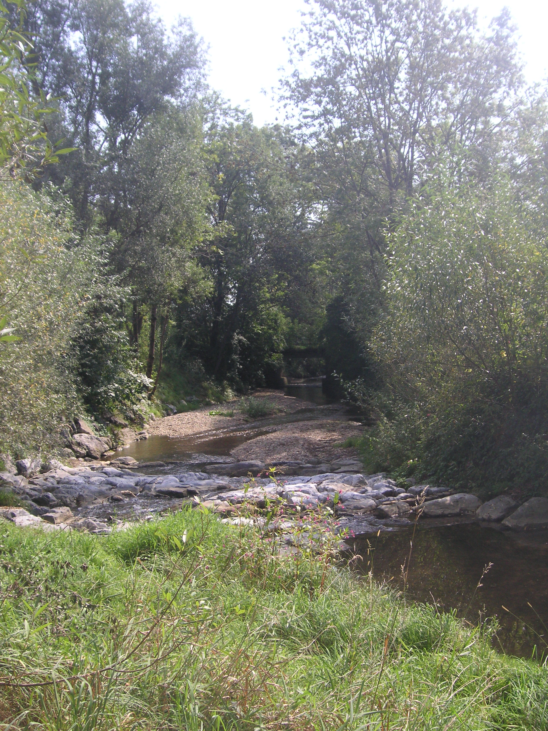 The Liebochbach in Hitzendorf, Styria, Austria. View to the south